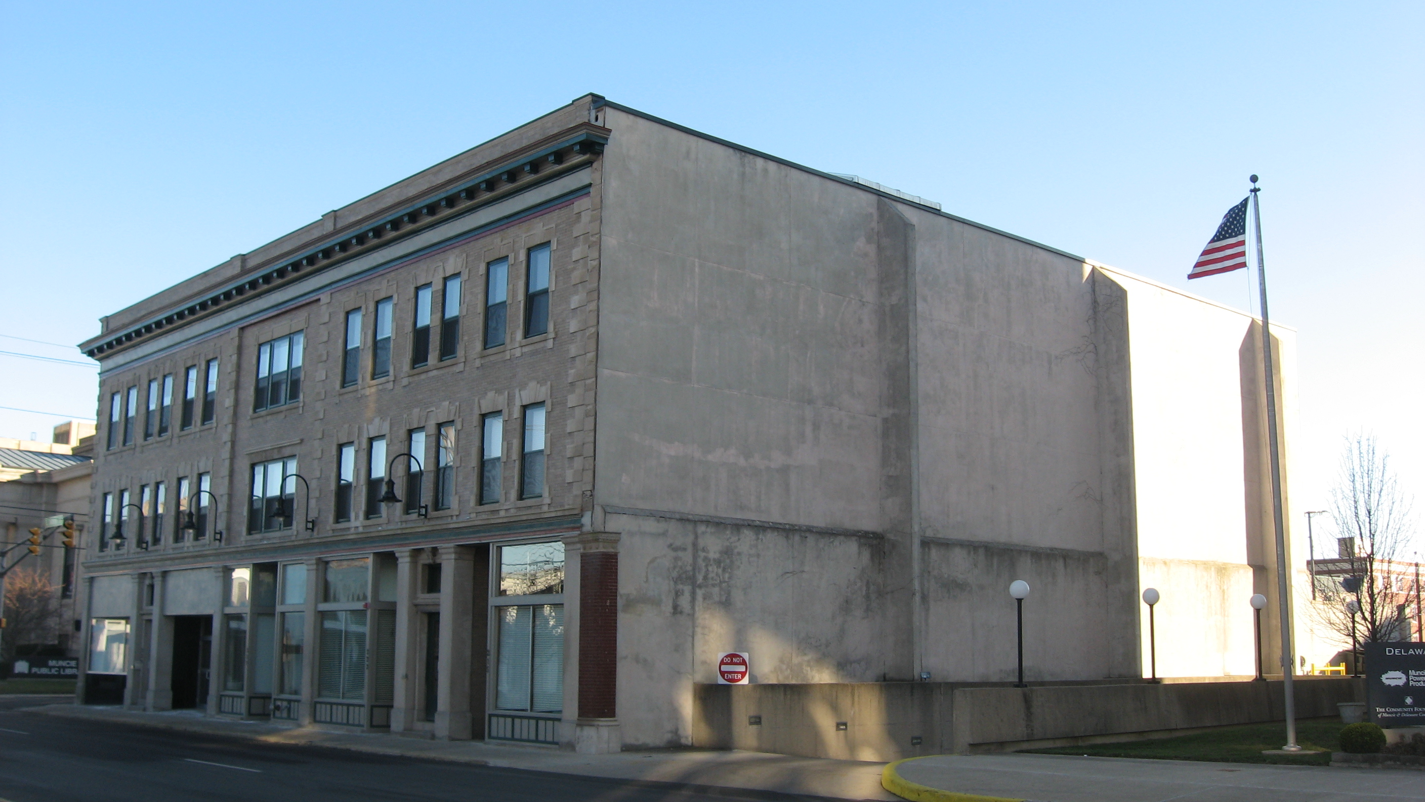 Front and western side of the W.W. Shirk Building, located at 219 E. Jackson Street (State Road 32) in Muncie, Indiana, United States. Built in 1896, it is listed on the National Register of Historic Places.